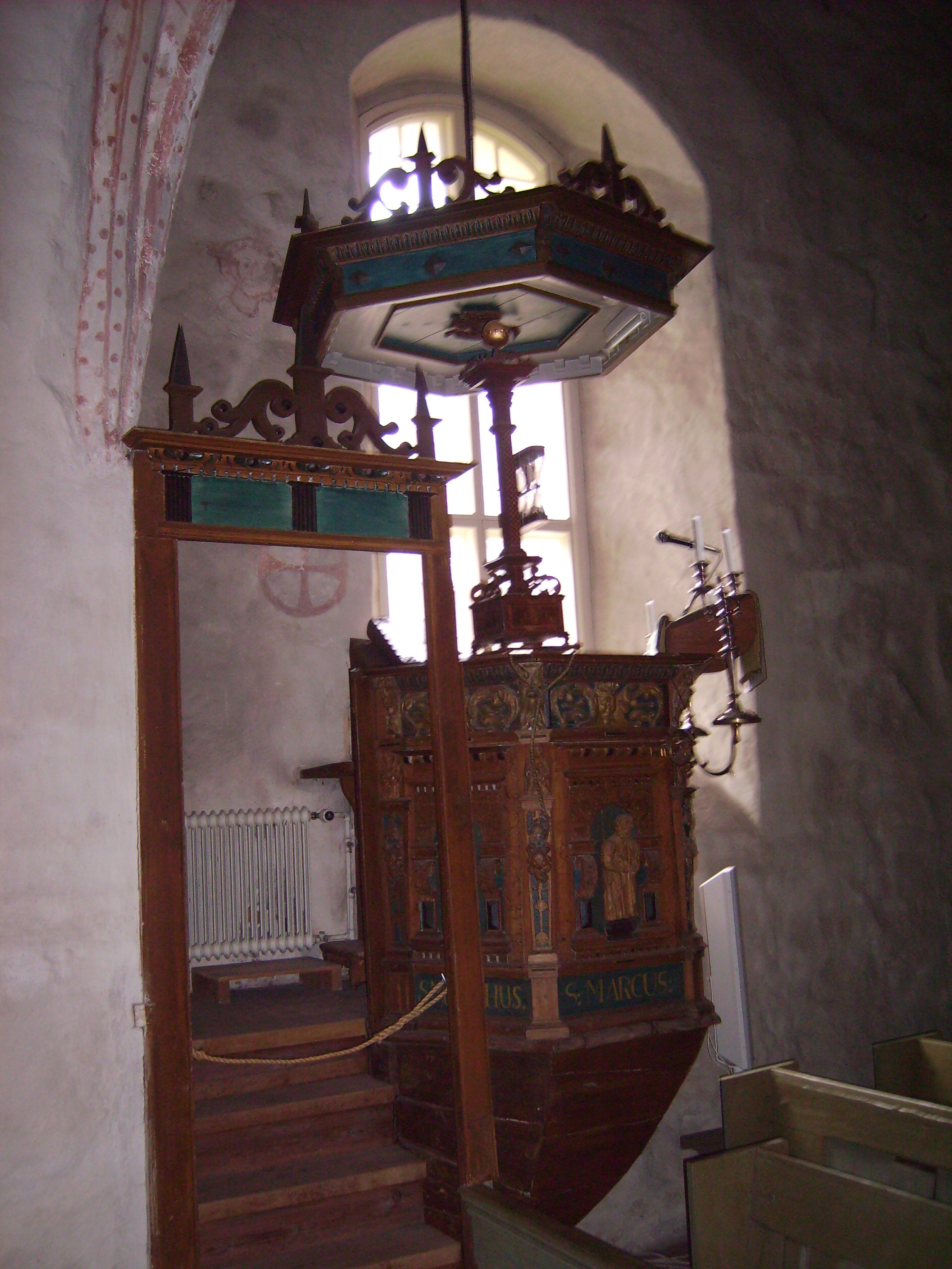 Pulpit of the medieval church in Korpo, Finland